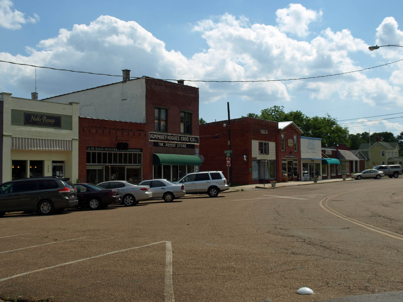 Commercial buildings on Main Street in Madison, Alabama; part of the Madison Station Historic District.